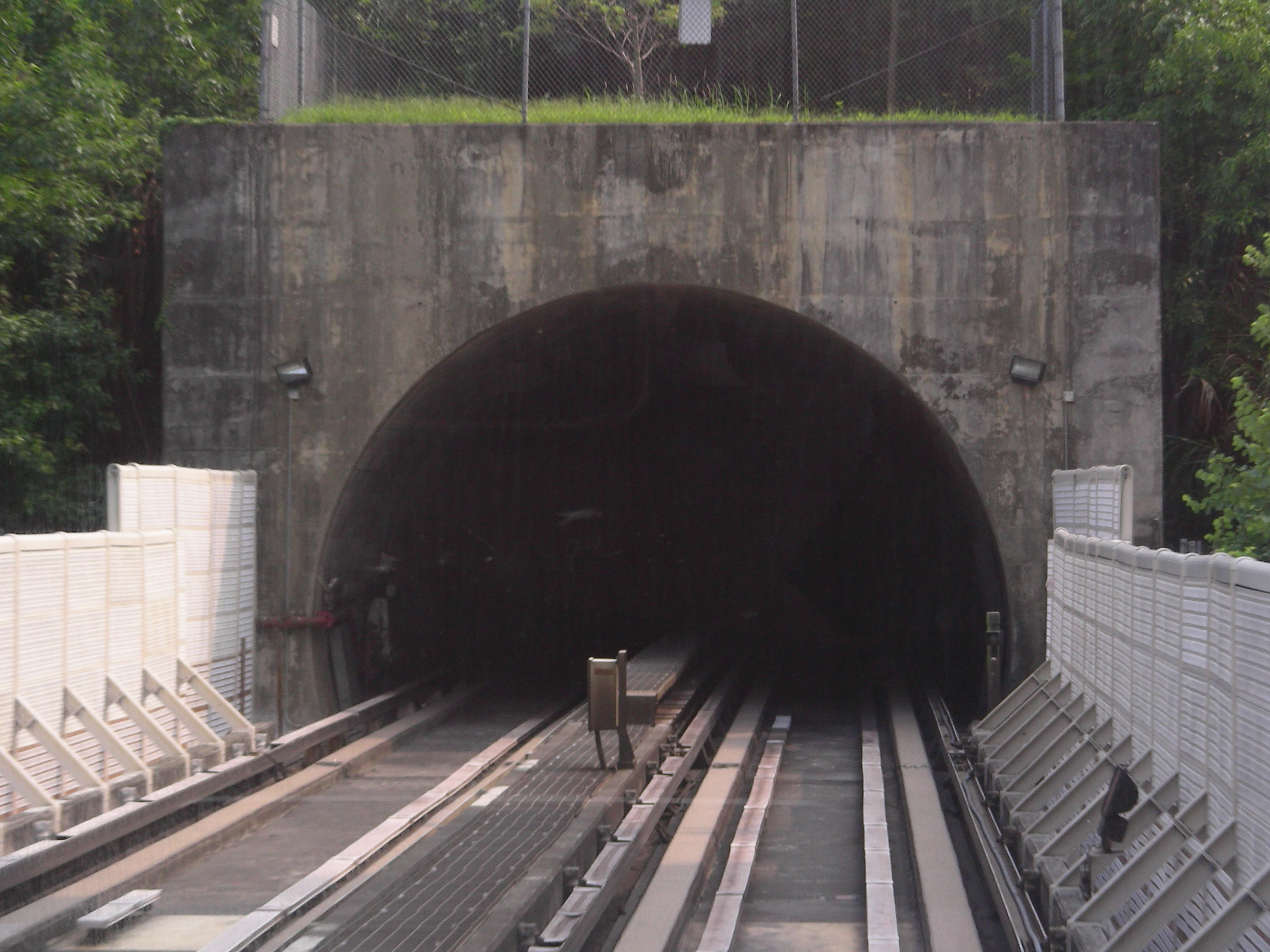 Taipei MRT FuZhouShan Tunnel In Muzha Line.